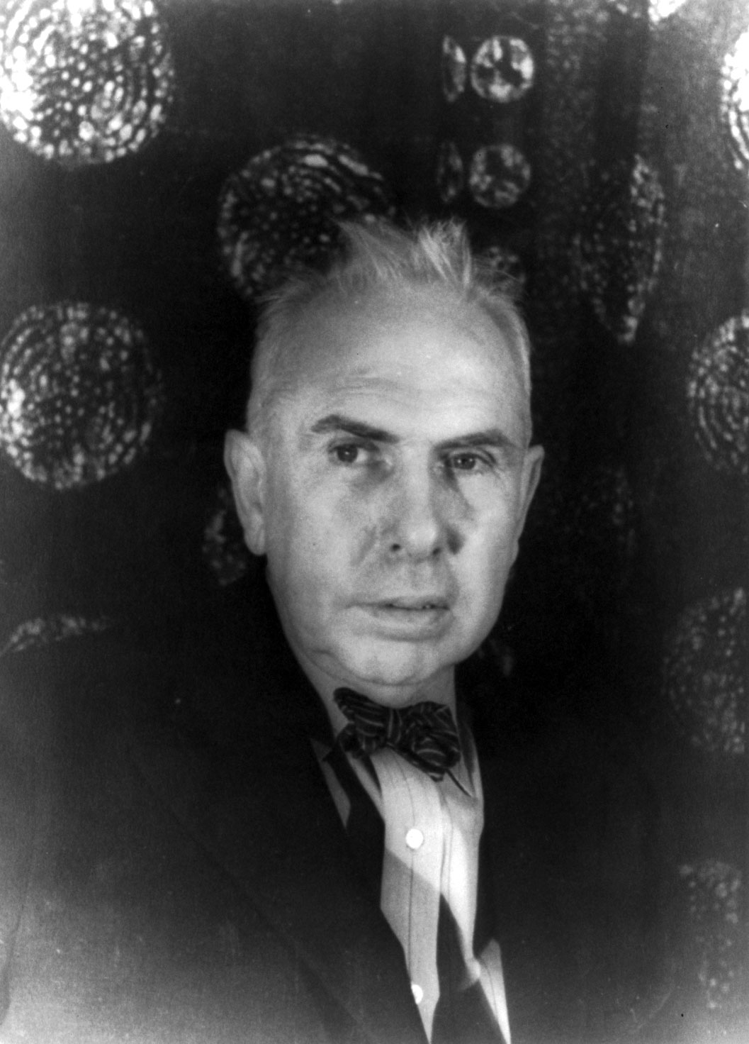 Portrait of Theodore Dreiser (1871-1945)